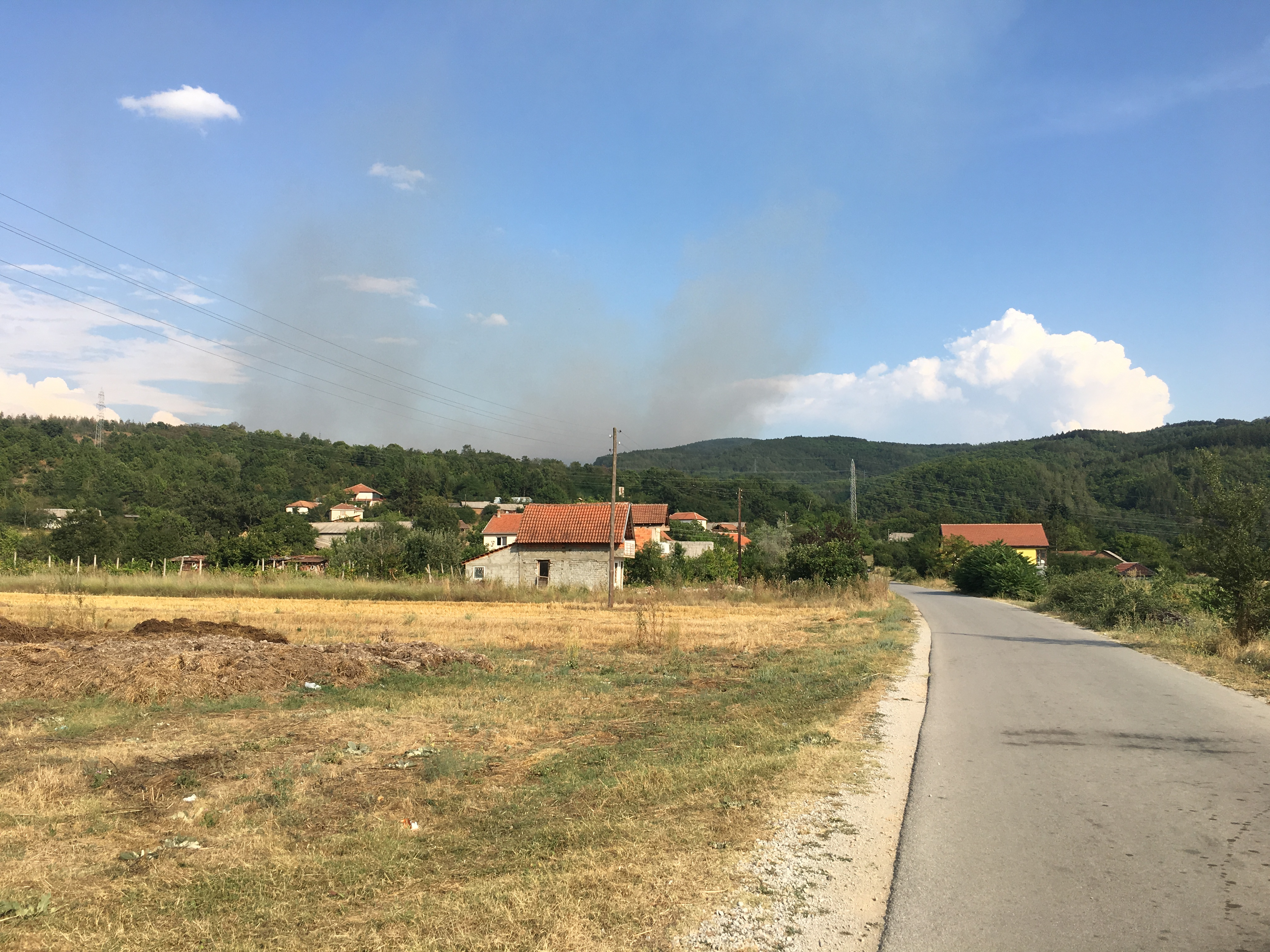 A view of the village of Vapila